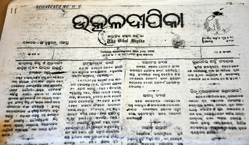 Odia newspaper the "Utkal Deepika" on 19 July 1930. It was the first Odia-language printed newspaper that got published on 4 August 1866 and marks the day of "Odia Journalism Day".